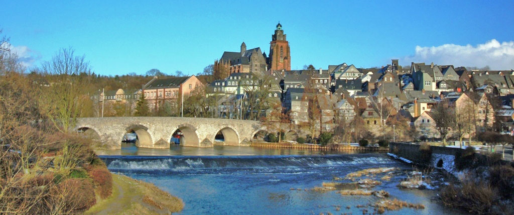 Wetzlar old town